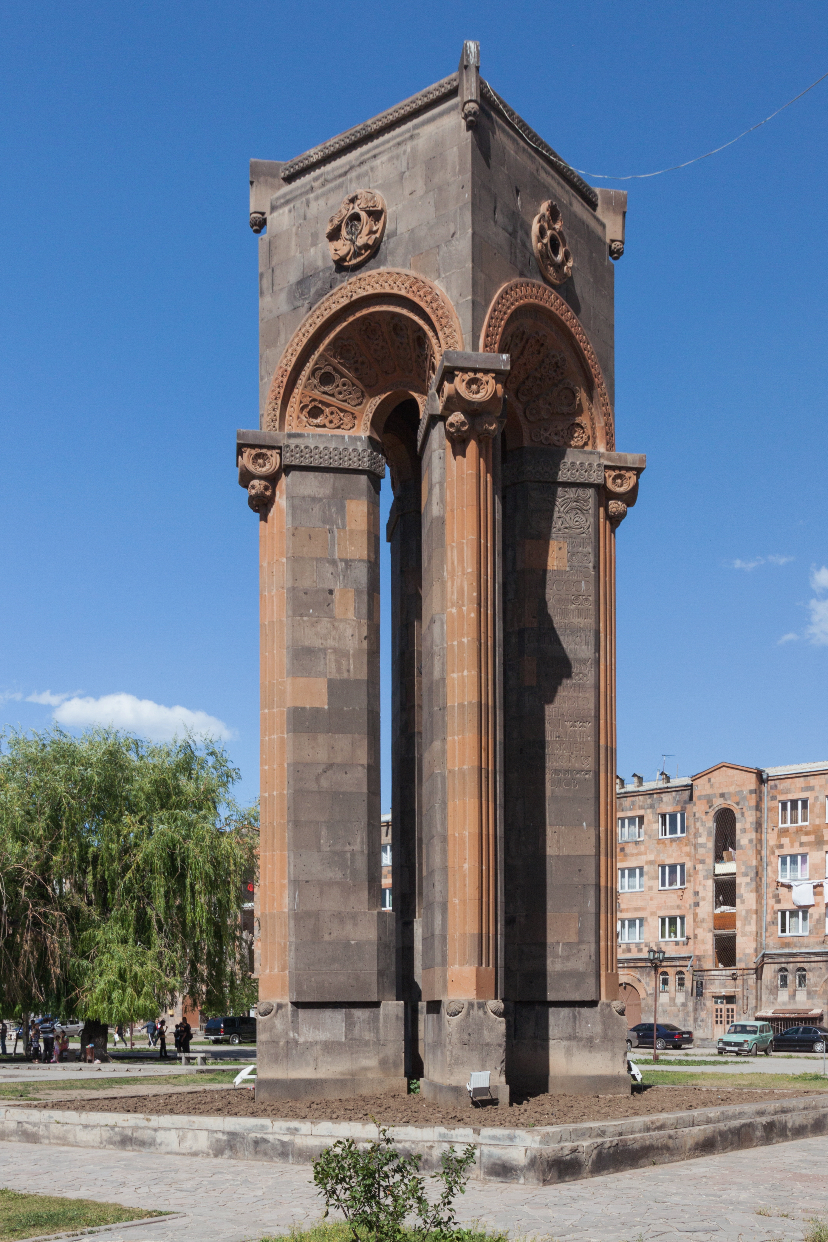 Alexandropol Monument.Gyumri, Shirak Province, Armenia.